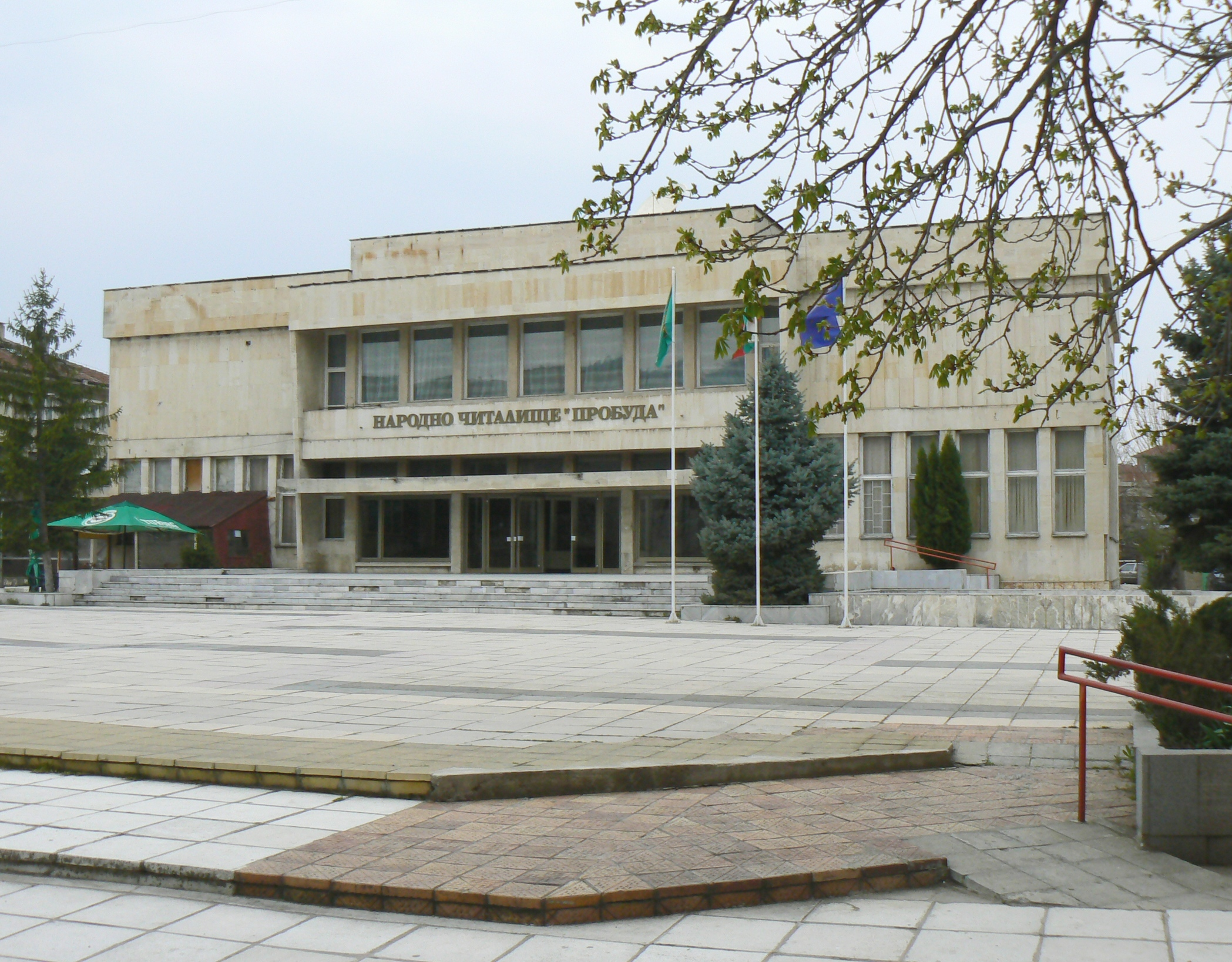 The police station in the town of Kaspichan, Bulgaria